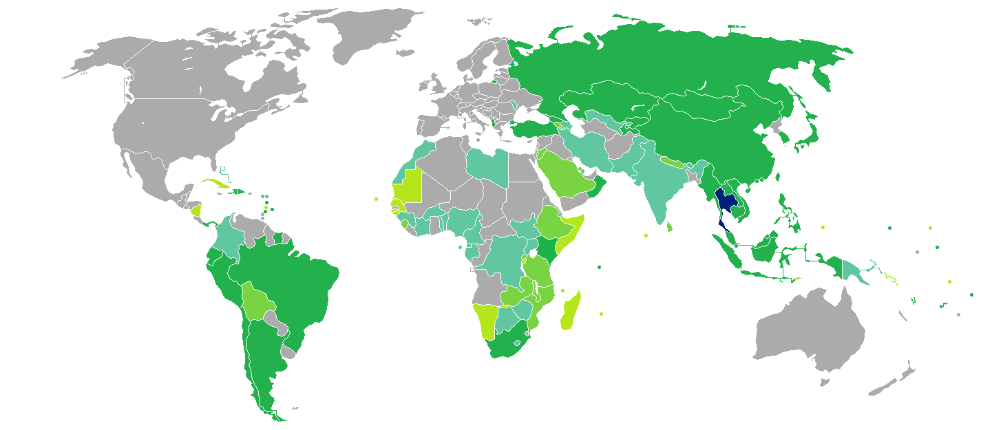 Visa requirements for Indonesian citizens. Thailand Visa free access Visa on arrival eVisa Visa available both on arrival or online Visa required